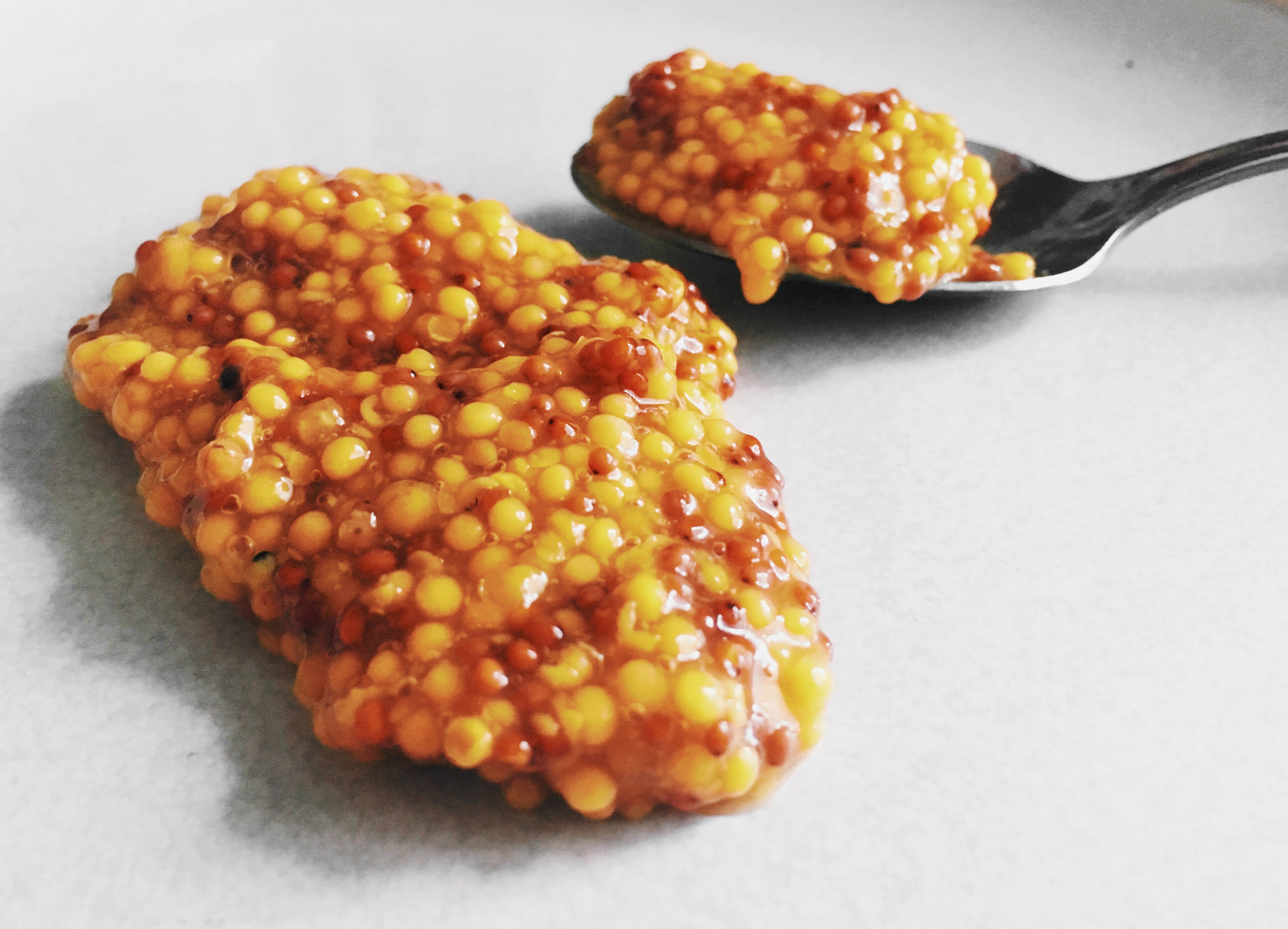 French mustard on a plate with a spoon.